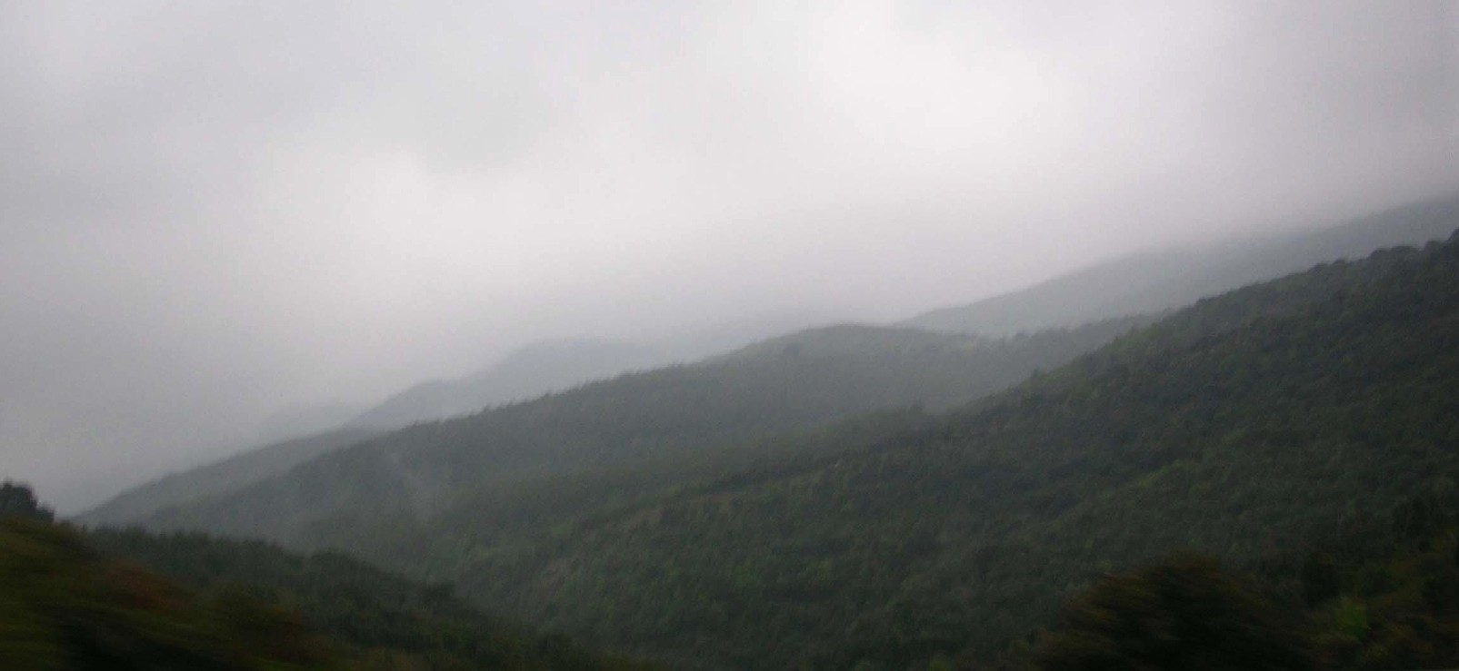 serra de Vallivana in the rain